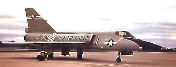 F-106 of the 11th Fighter-Interceptor Squadron, about 1960